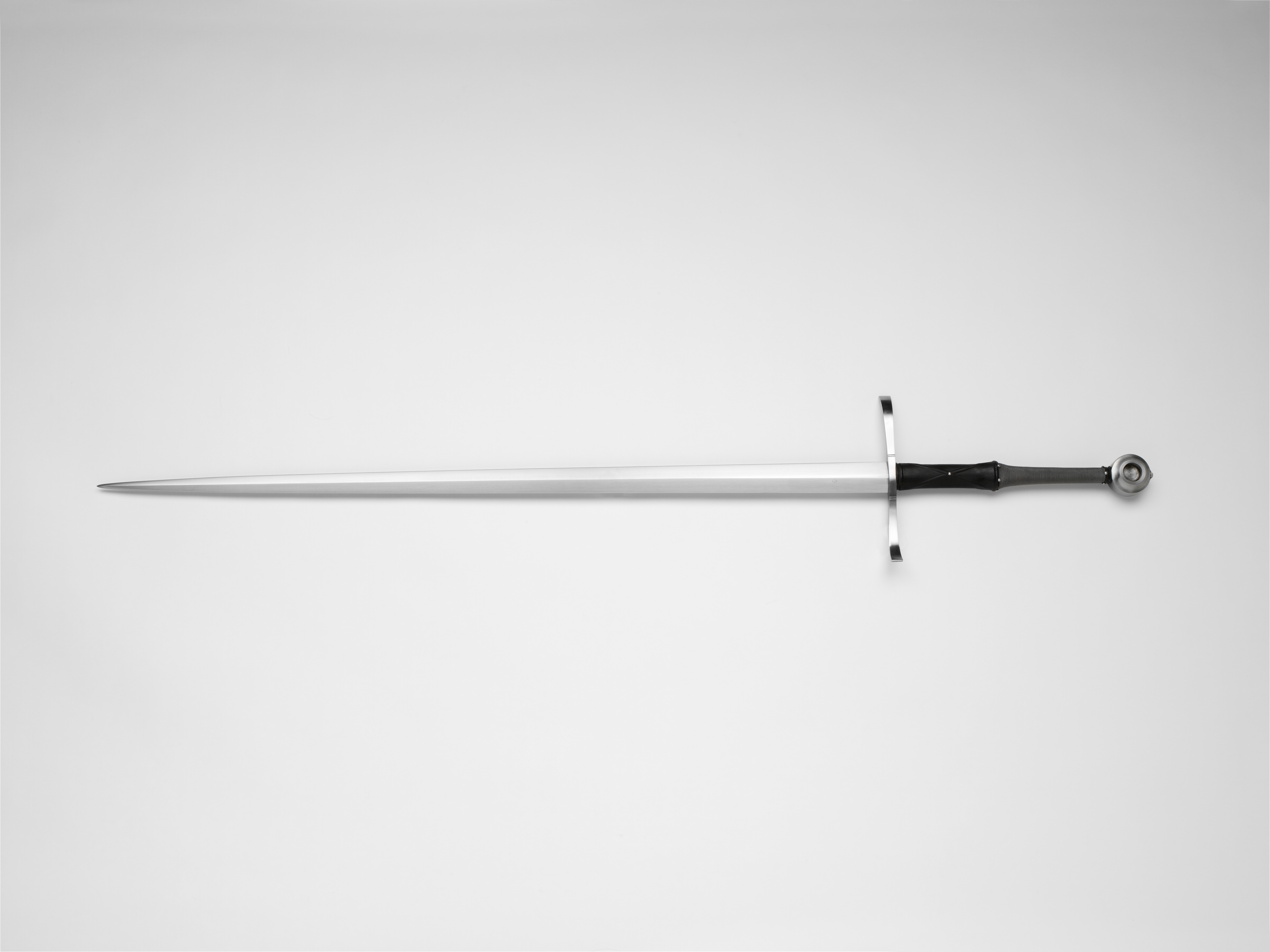 The Munich Limited Edition Medieval War Sword